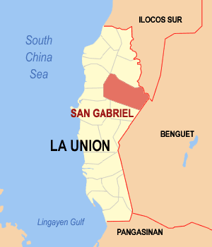 Map of La Union showing the location of San Gabriel